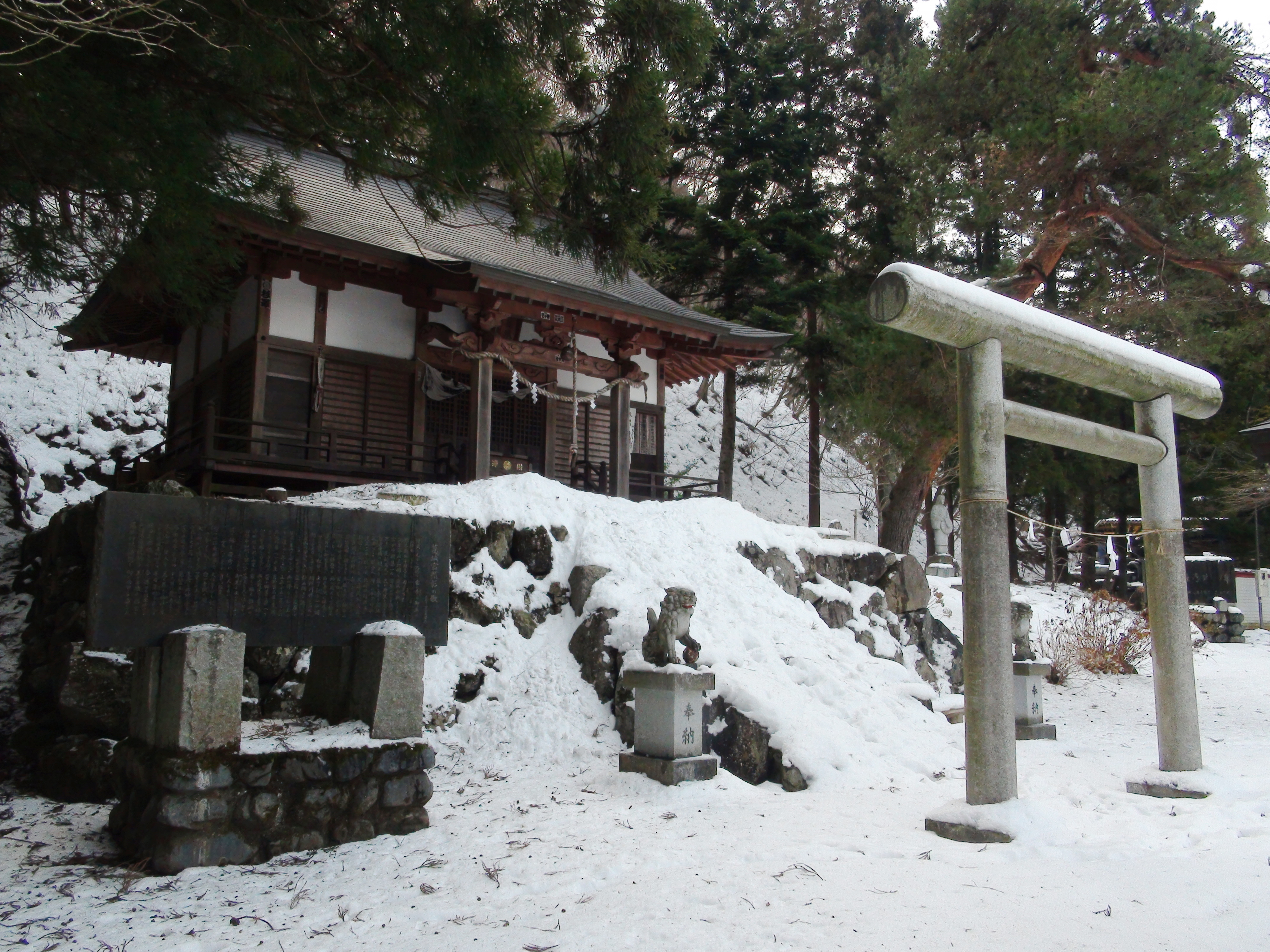 Hinazuru Shrine